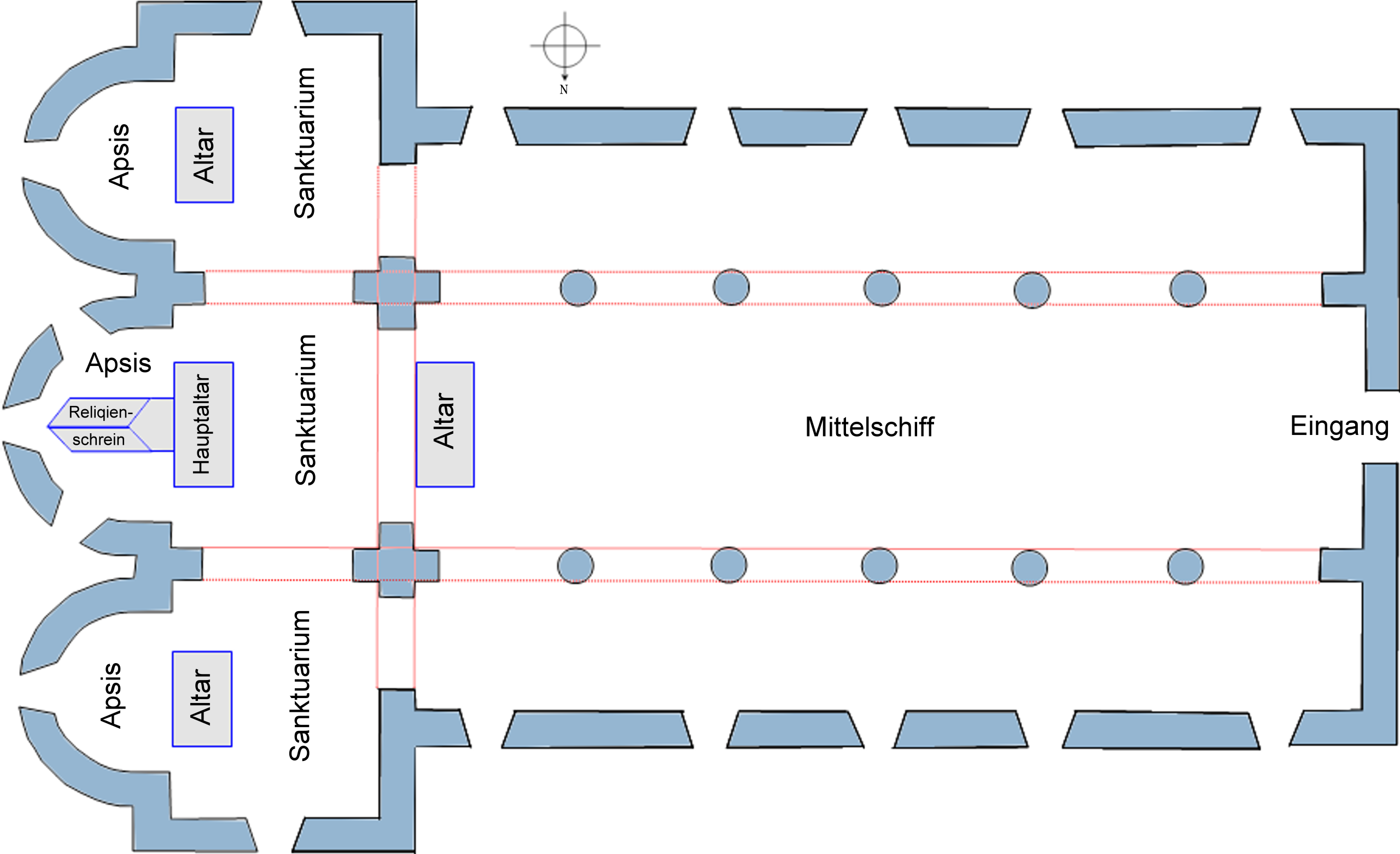 Ground plan of St Justinus Church in Frankfurt-Höchst in the 9th century